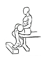 an exercise of calf